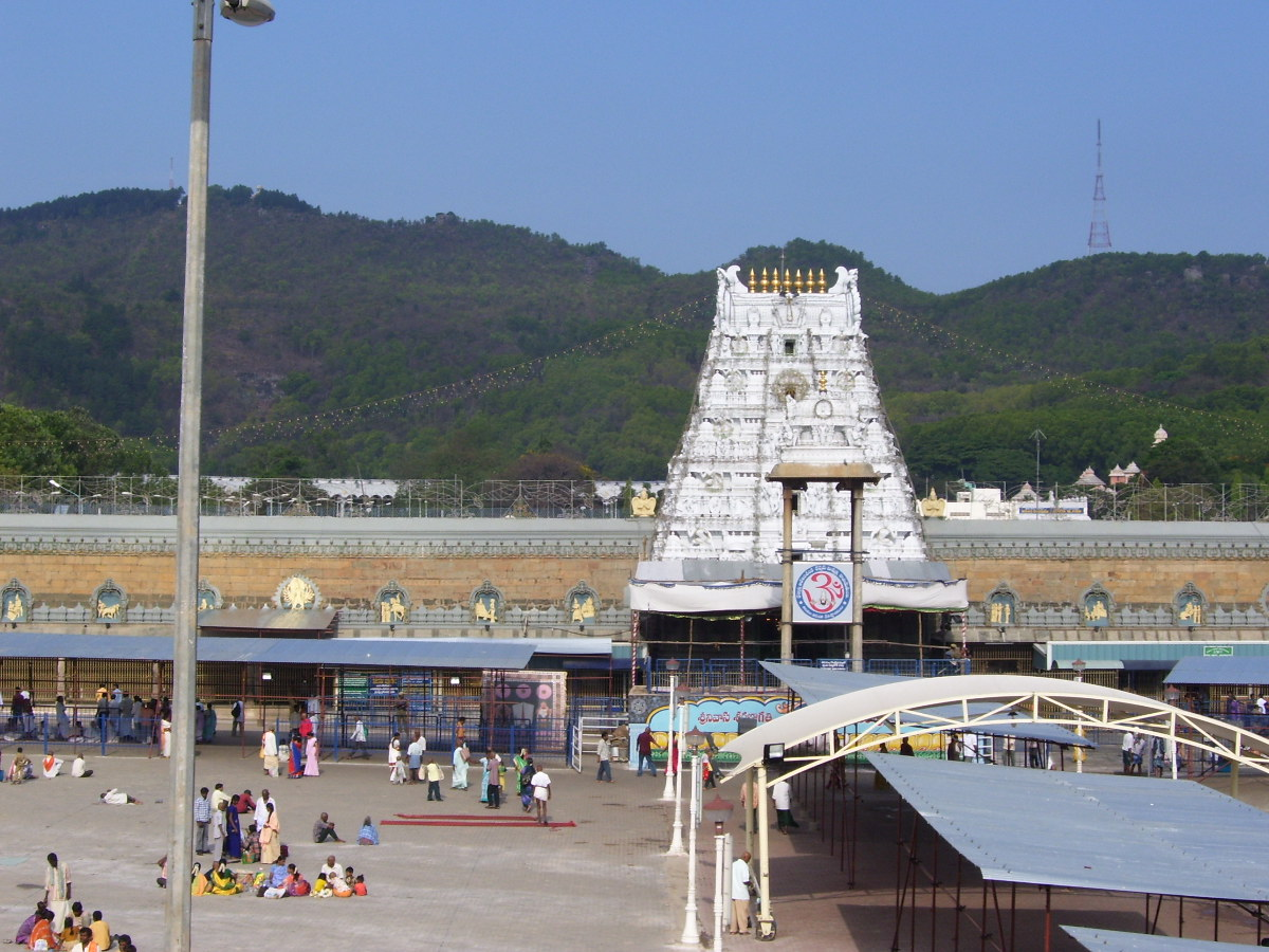 Front View of Tirumala Temple